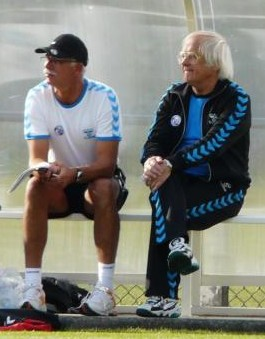 Pascal Janin, Gilbert Gress